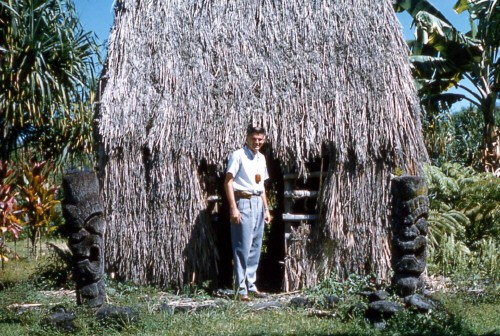 Hawaiian hale (house), Hilo, Hawaii